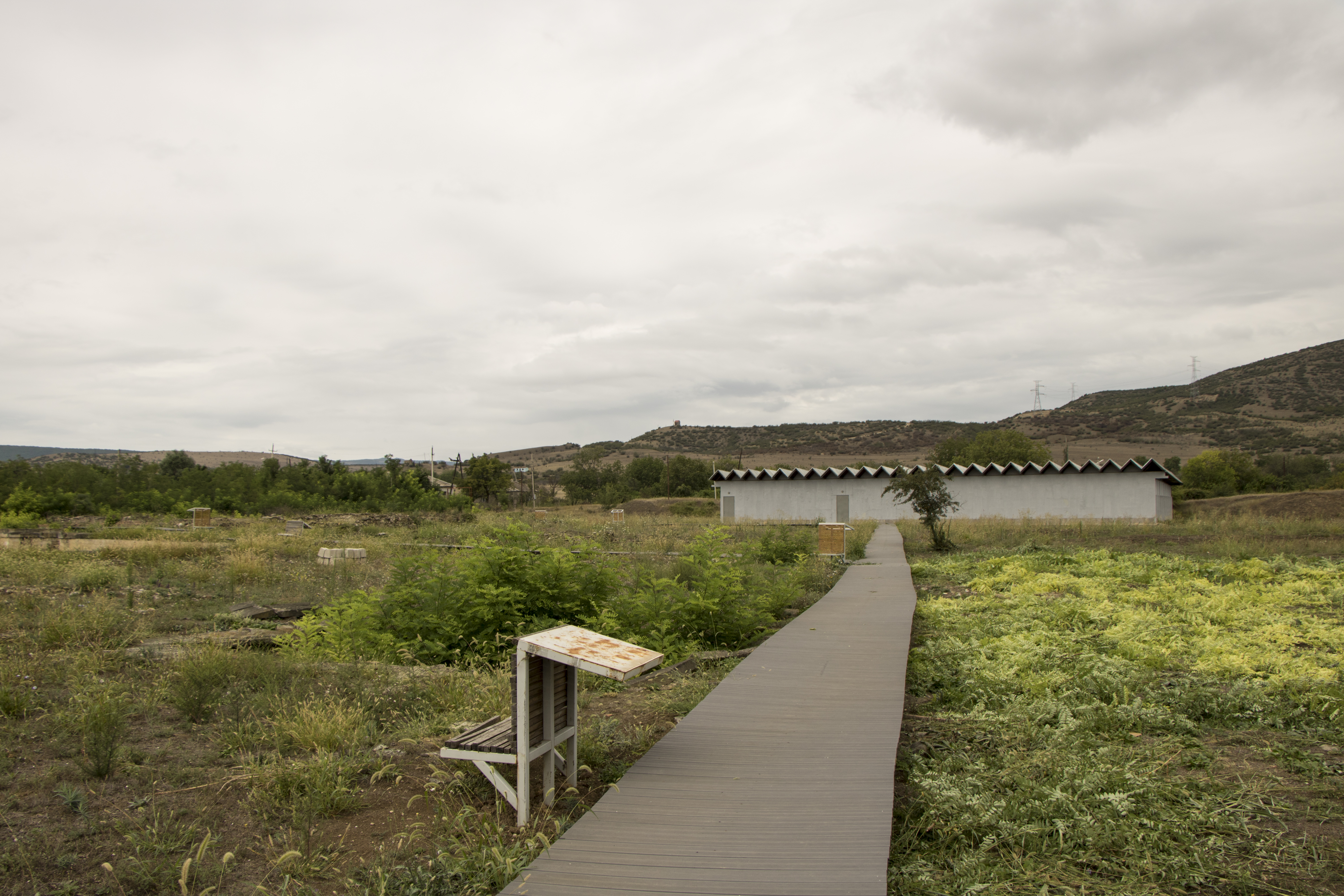 Dzalisi - general view